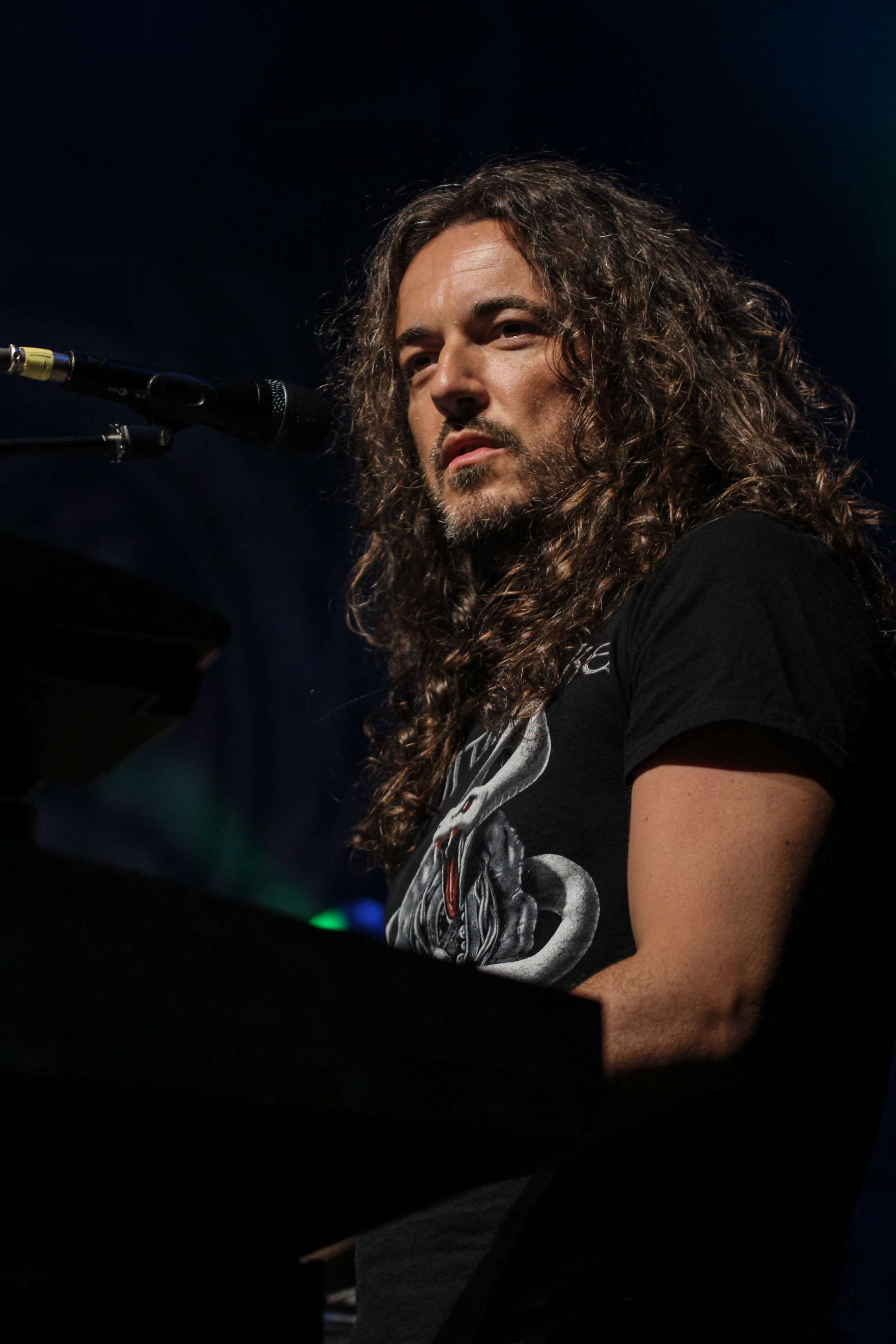 Saban Theater 6/9/2015